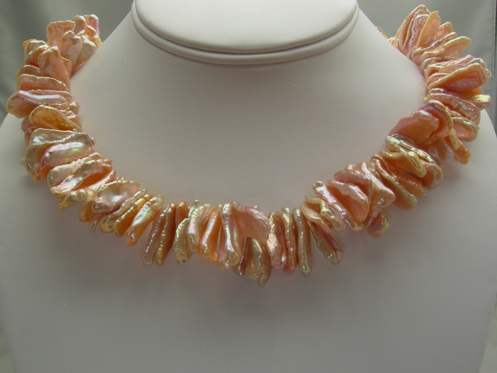 Necklace of flat Chinese freshwater keshi pearls